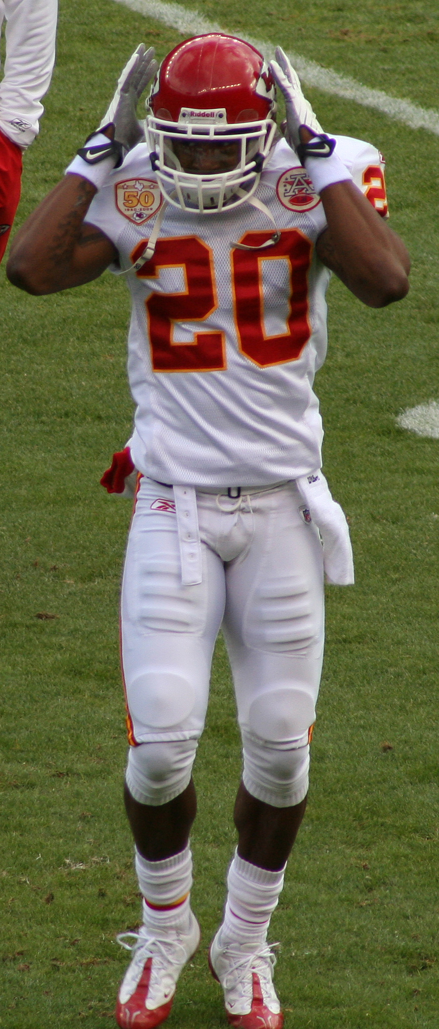 Donald Washington, a player on the Kansas City Chiefs American football team.